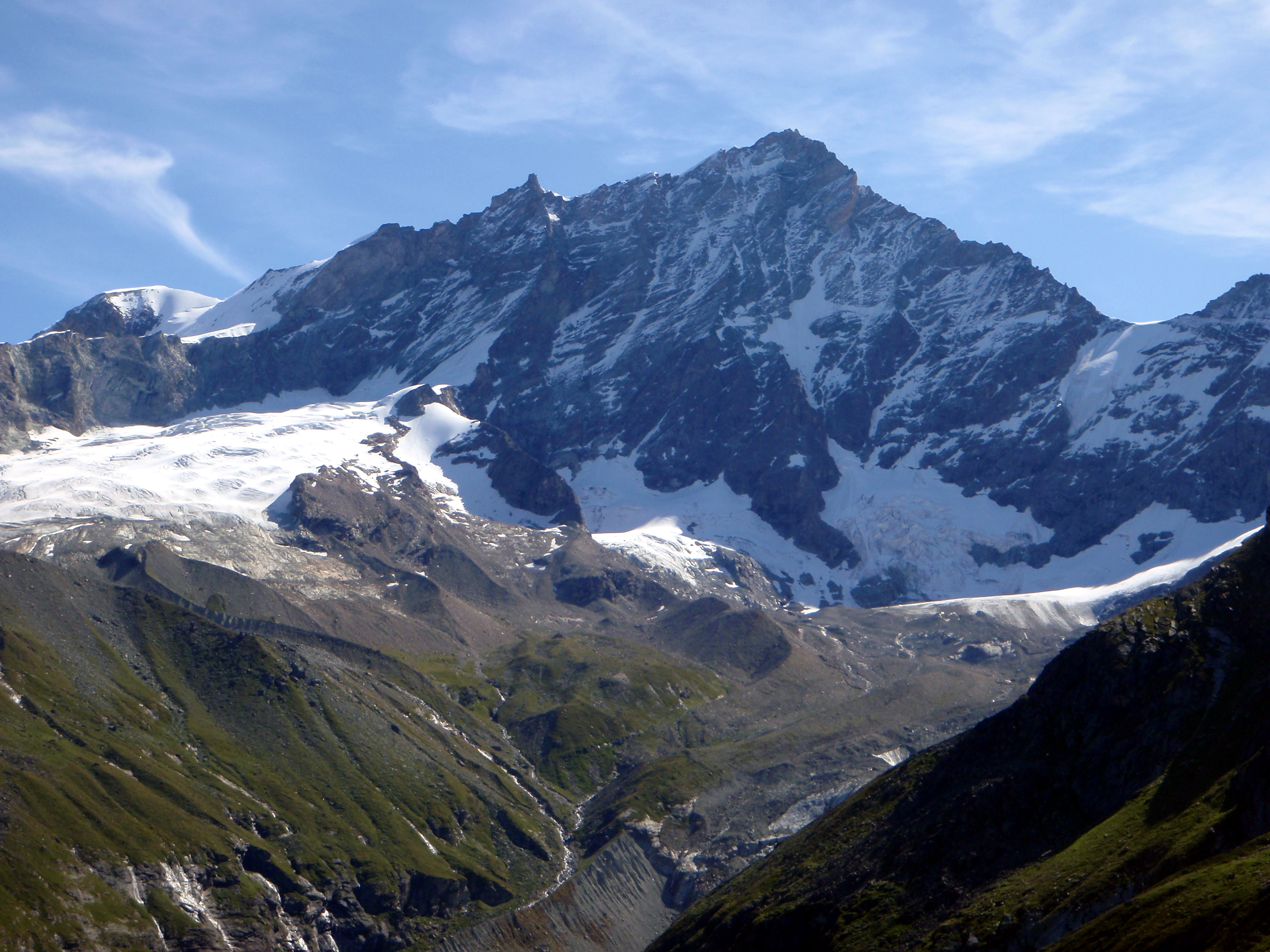 West-face of Weisshorn (4505 m, Suisse, VS) above Val d'Anniviers.